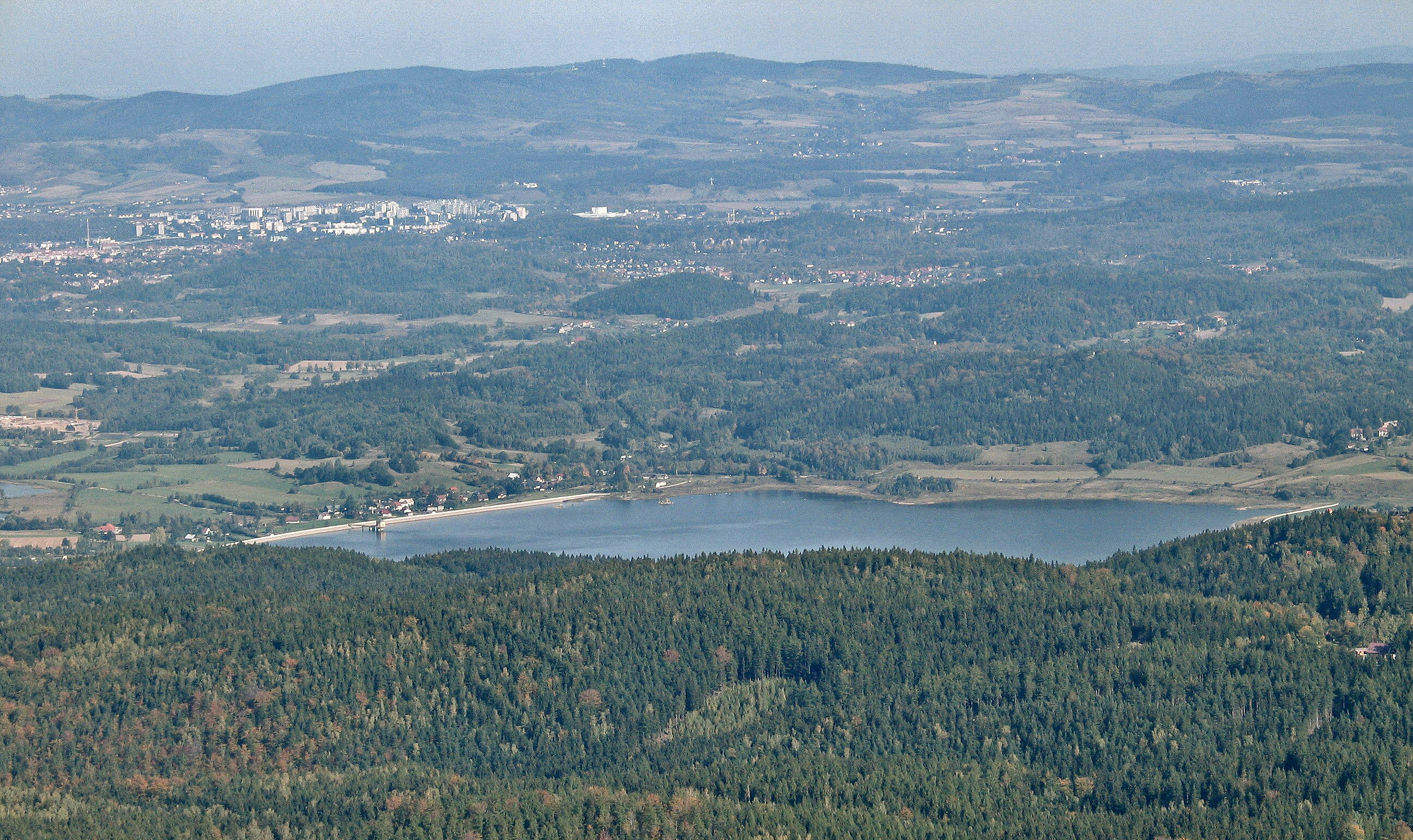 Kotlina Jeleniogórska, Zbiornik Sosnówka, Karkonosze Mountains, Poland